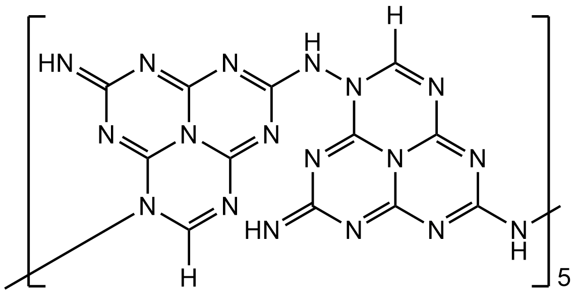 Structure of melon after T. Komatsu, showing two of ten 2-iminoheptazine units. The amine bridges connect carbon 8 of each heptazine unit to nitrogen 4 of the next unit.